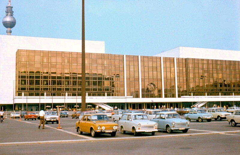 Palast der Republik (Palace of the Republic), (taken by István Csuhai, Hungary) East Berlin/Berlin Capital of the GDR, 1977